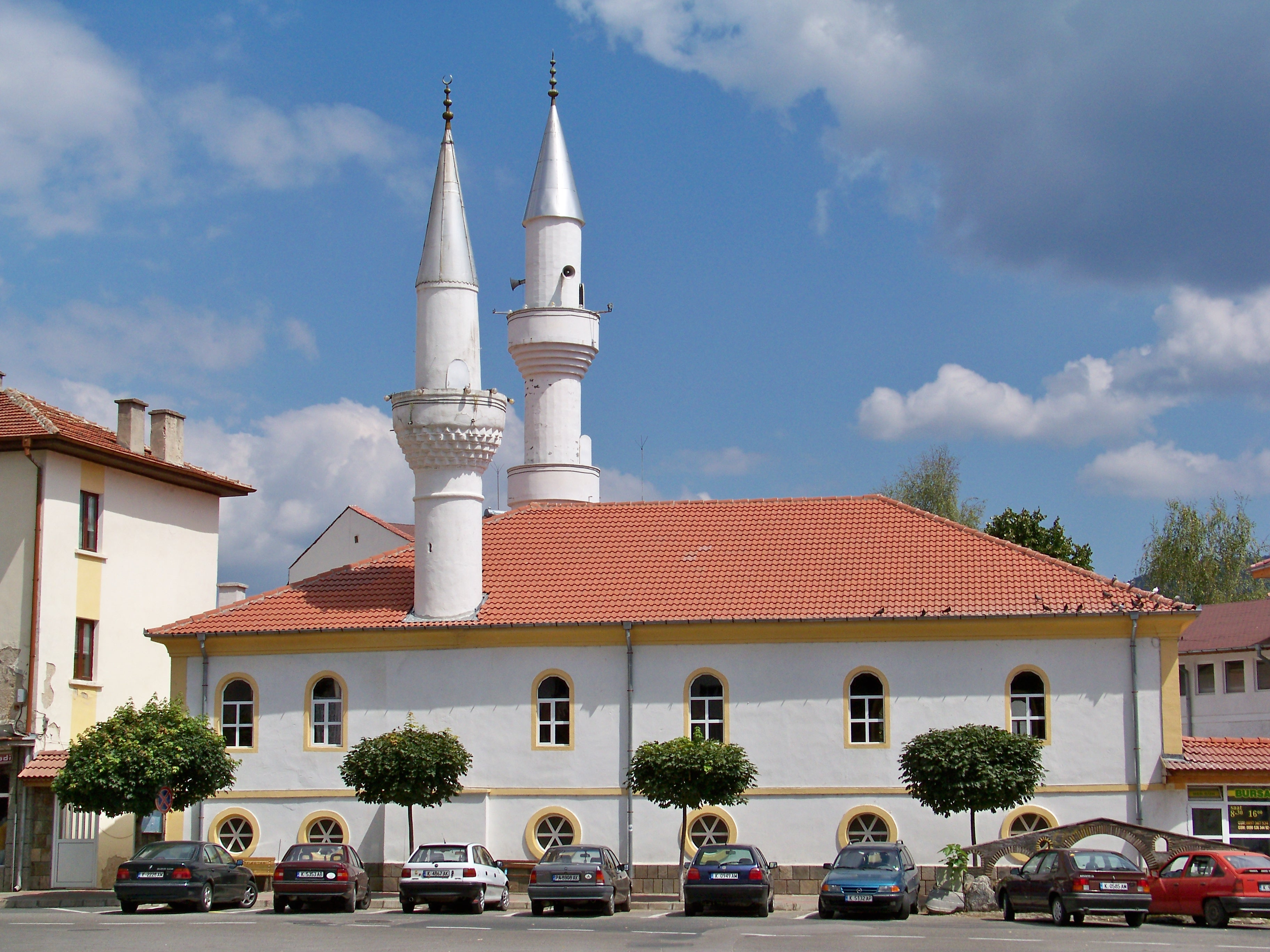 Ardino (Bulgarian: Ардино, formerly Turkish: Eğridere) is a town in Southern Bulgaria, in the Rhodope Mountains.